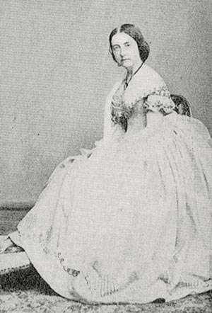 Lotten von Kræmer (1828-1912), Swedish author and founder of Samfundet De Nio.